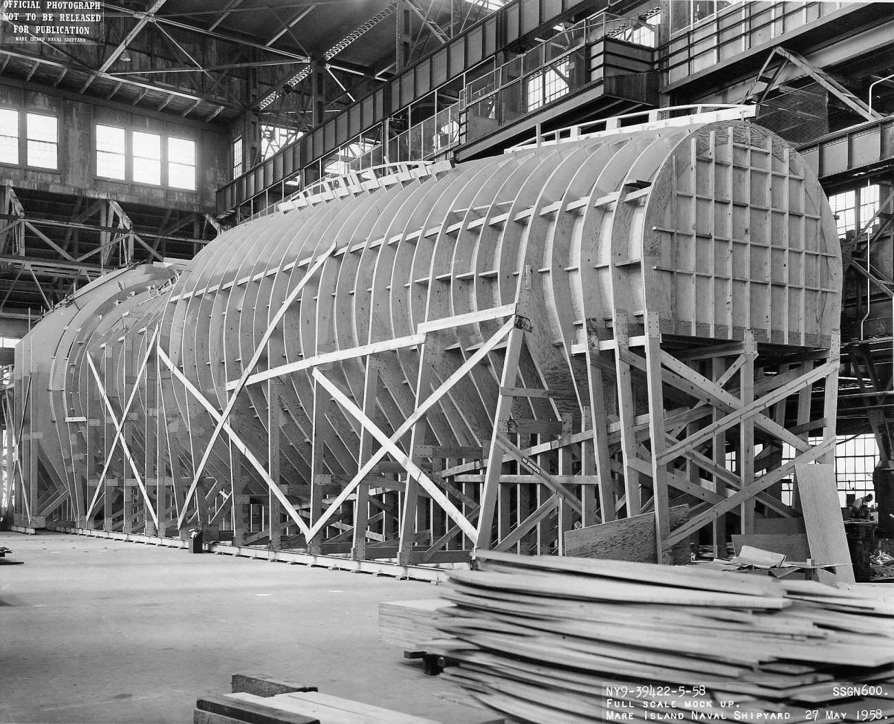 Full scale mock up of the engineering compartments for the (SSBN-600) [later} Theodore Roosevelt (SSGN-600) at Mare Island on 27 May 1958.